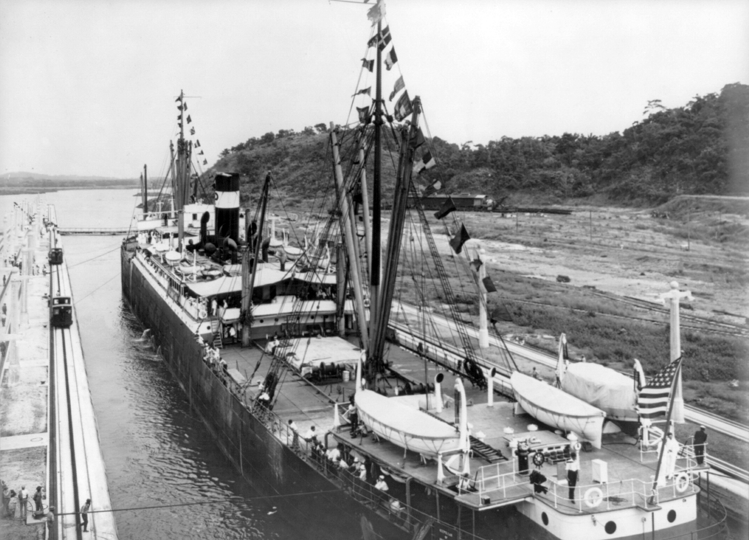 SS Ancon entering west chamber, Mira Flores lower locks, Panama Canal